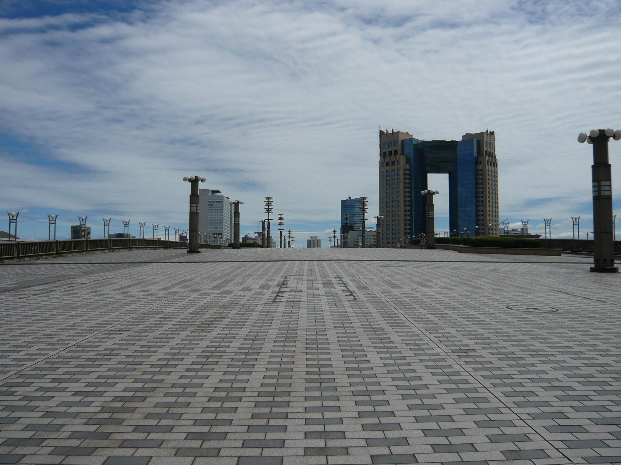 東京都江東区有明とお台場の間に架かる夢の大橋 Dream Bridge(Yume-no-oohashi、夢の大橋) in odaiba,Tokyo,Japan.